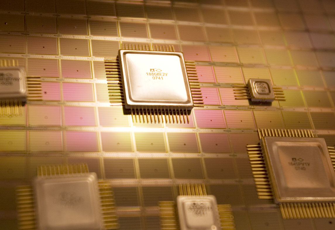 Microchip Milandr